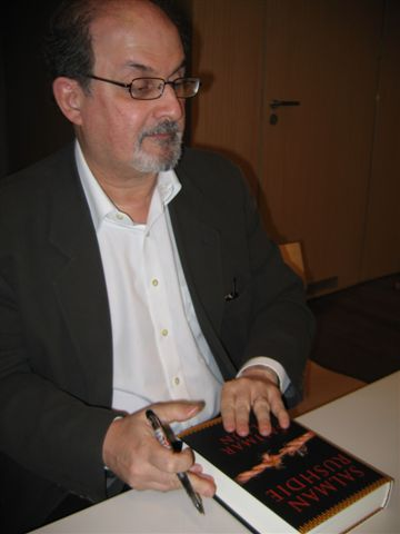 Salman Rushdie (b. 1947), British-Indian writer